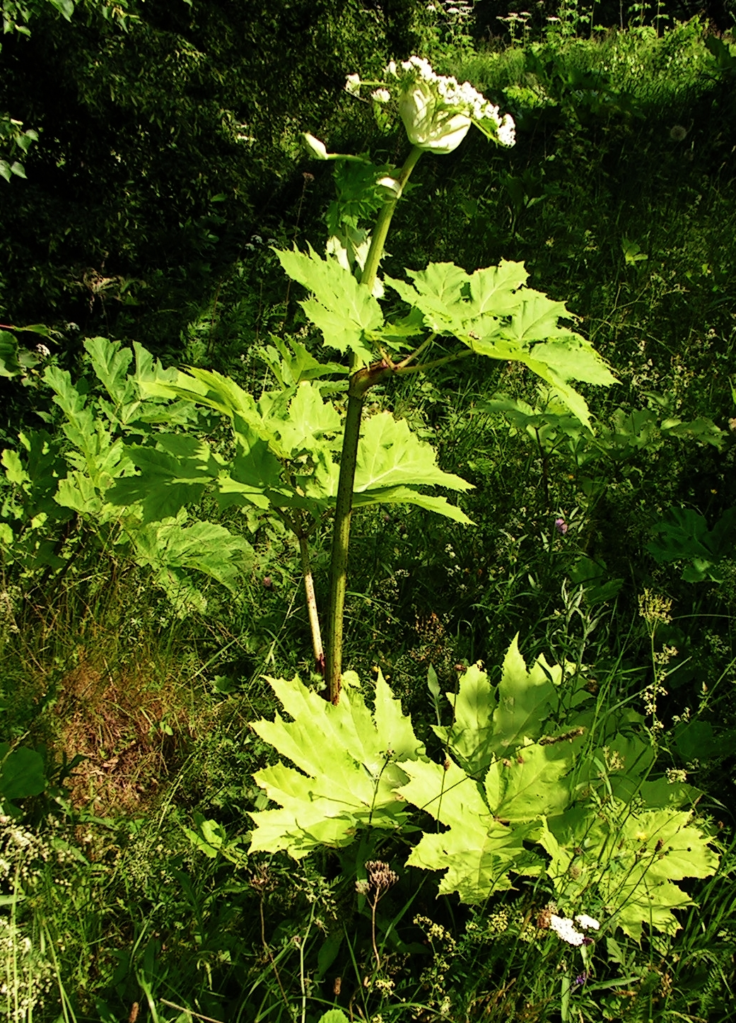 Heracleum_sosnowskyi. Moscow region, Russia